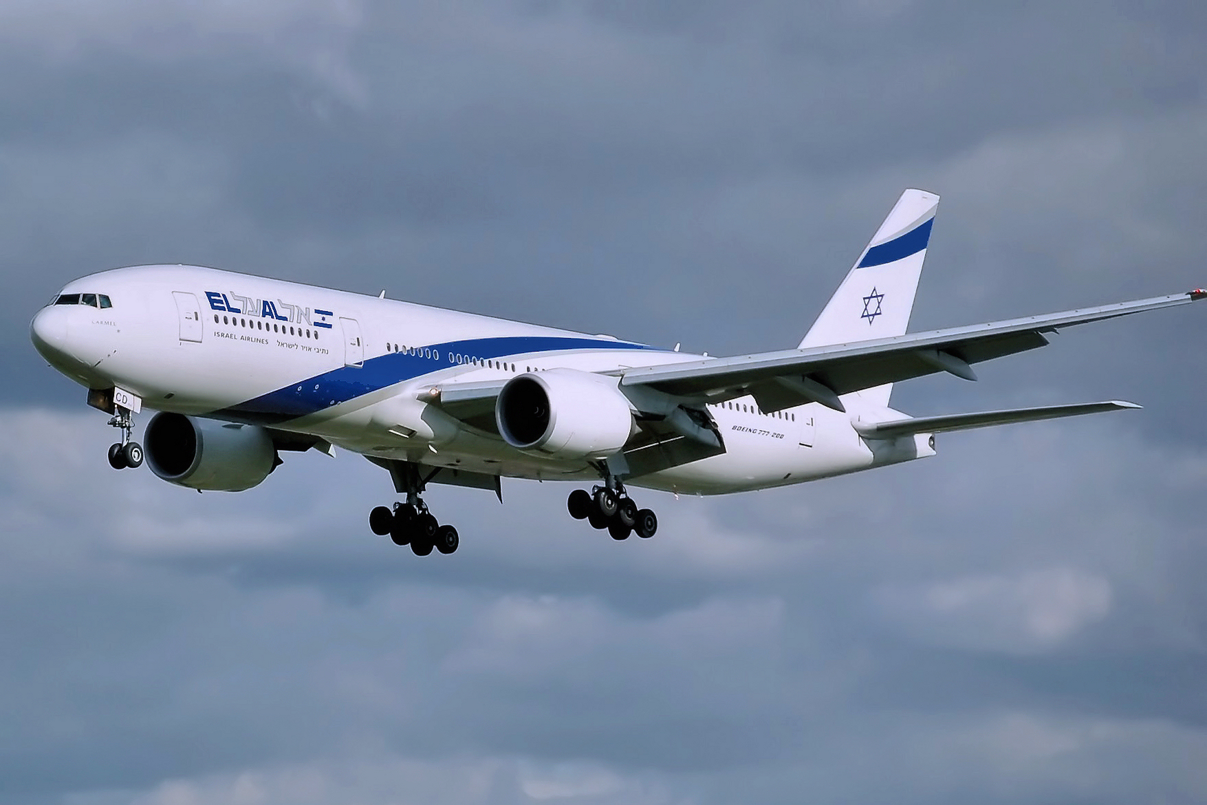 El Al Israel Airlines Boeing 777-200ER (4X-ECD) lands at London Heathrow Airport, England.